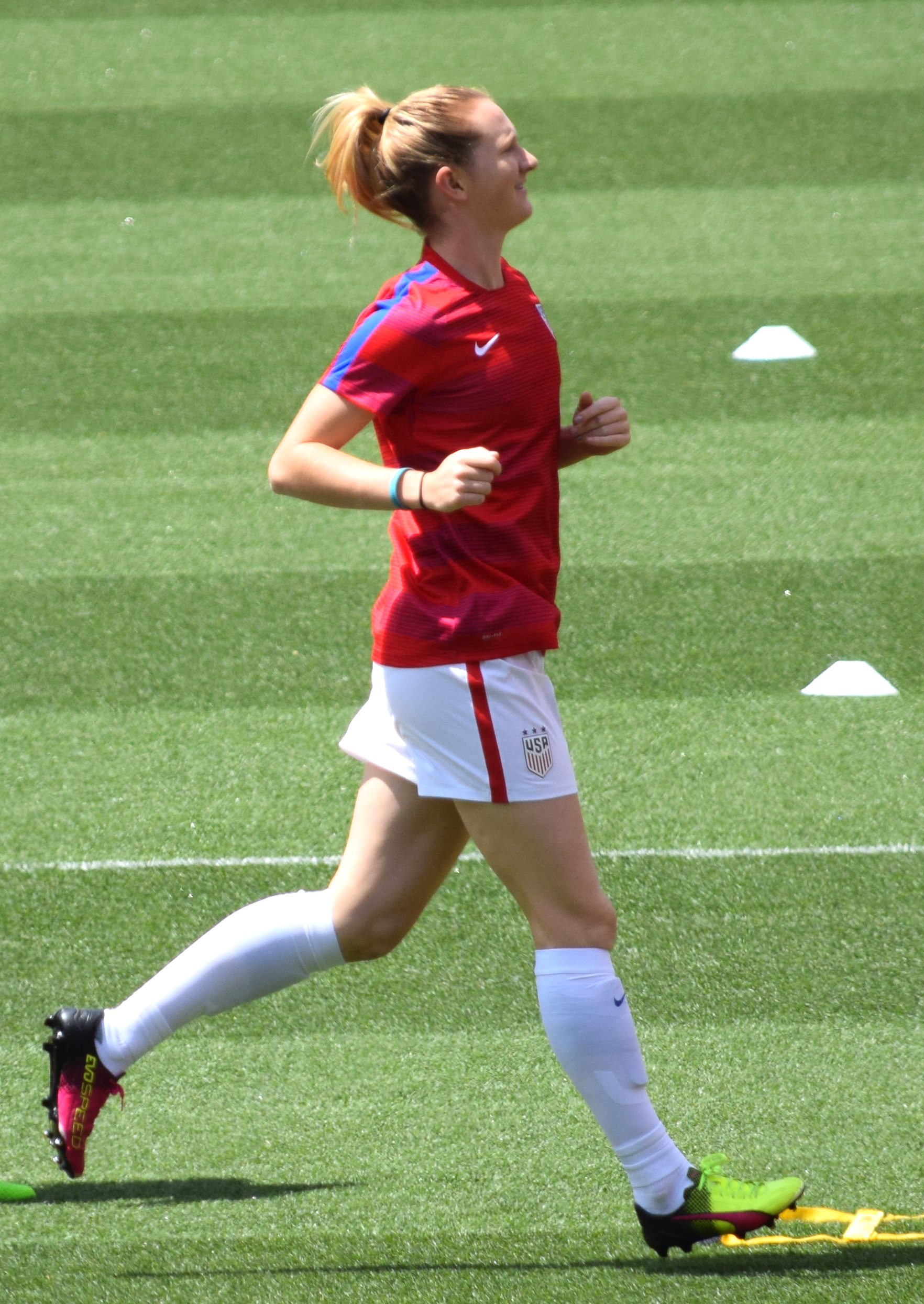 Sam Mewis with the USWNT before a match against Japan on June 5, 2016